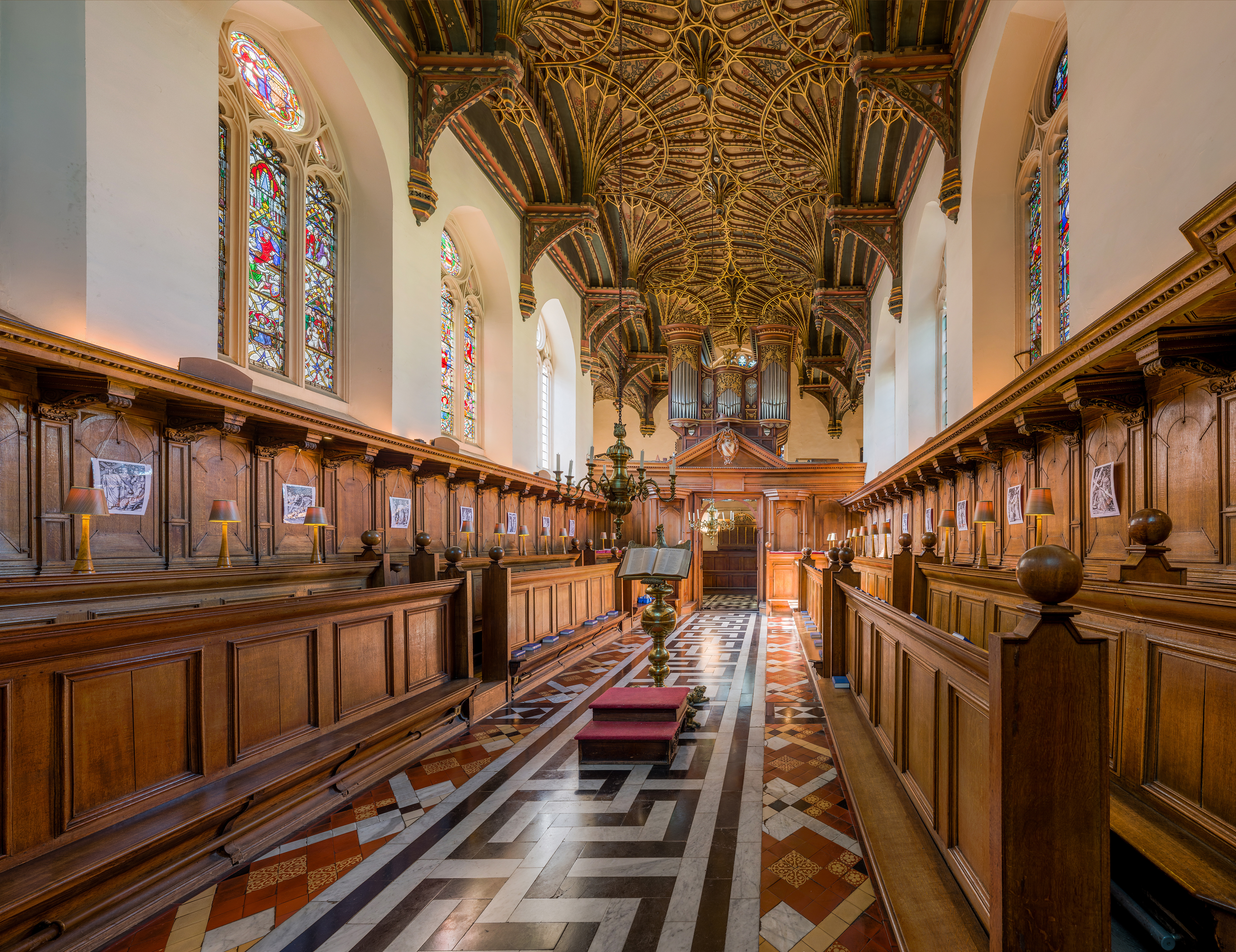 Inside Brasenose College Chapel, University of Oxford, England